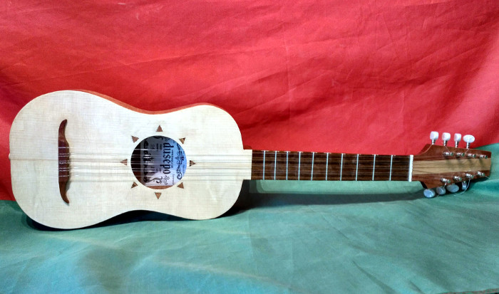 Jarana Jarocha built by Jo Dusepo, front view